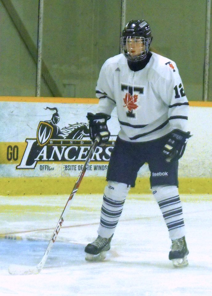 Photo taken by Devan Mighton of CIS women's hockey 2013-14.